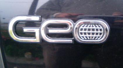 Geo Emblem Logo Wordmark